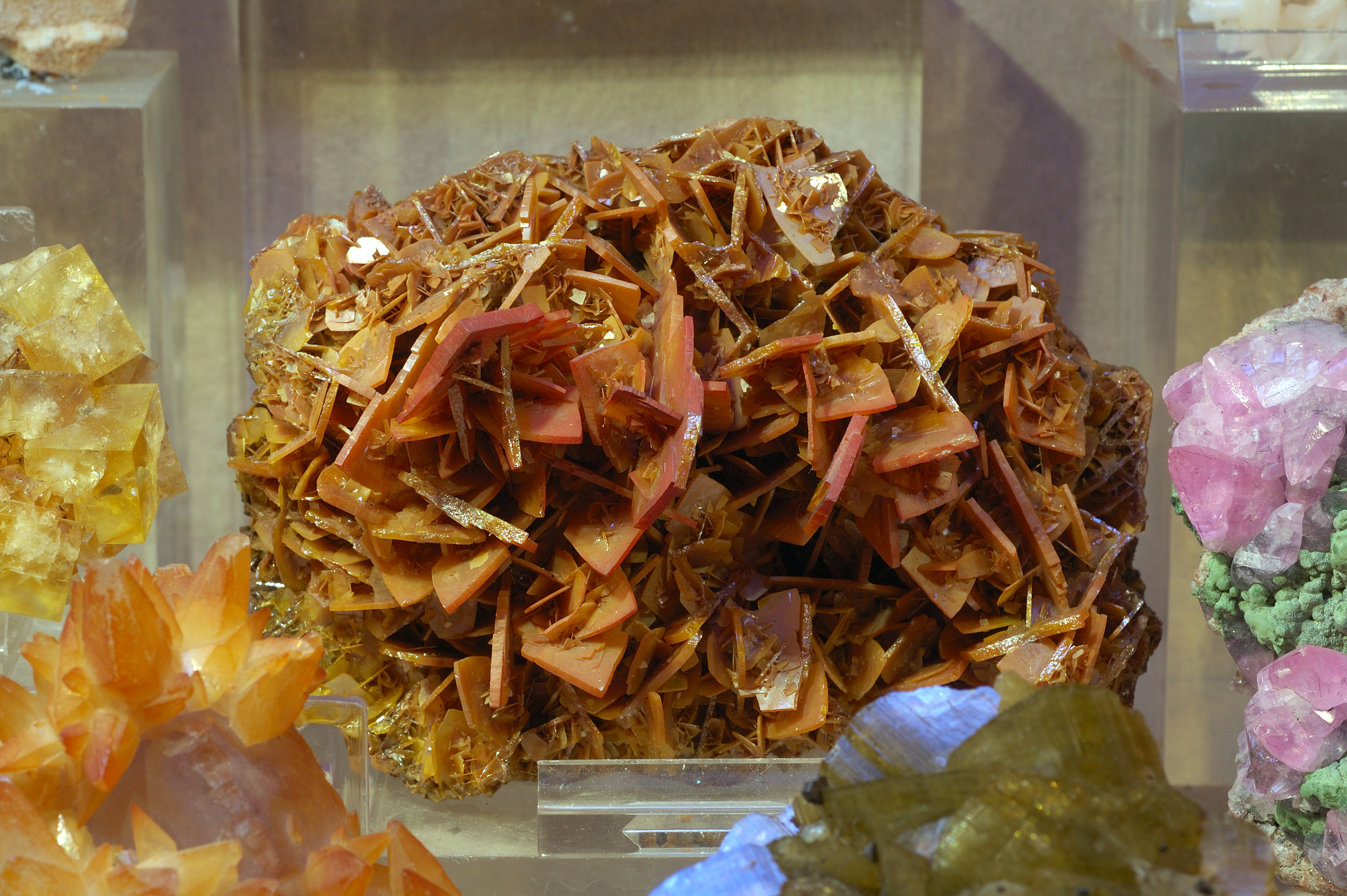 Wulfenite from the Defiance Mine, Arizona, USA